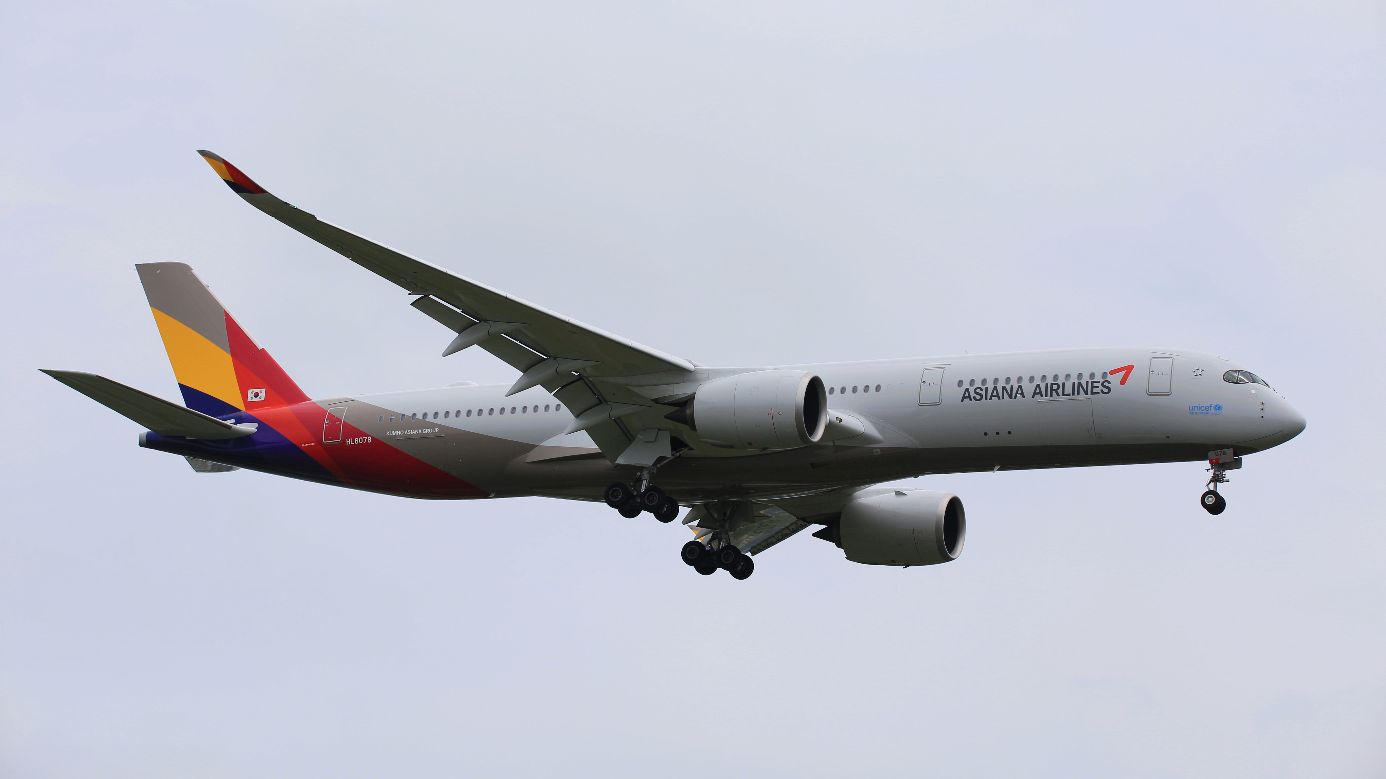 Asiana Airlines Airbus A350 at Taiwan Taoyuan International Airport